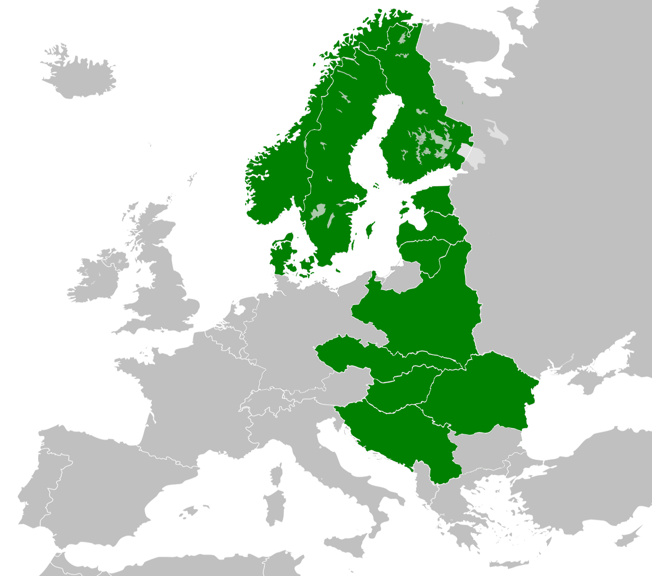 Map of the revised plan of the Intermarium by Józef Piłsudski. It would stretch from the Atlantic Ocean to the Adriatic Sea to the Black Sea.